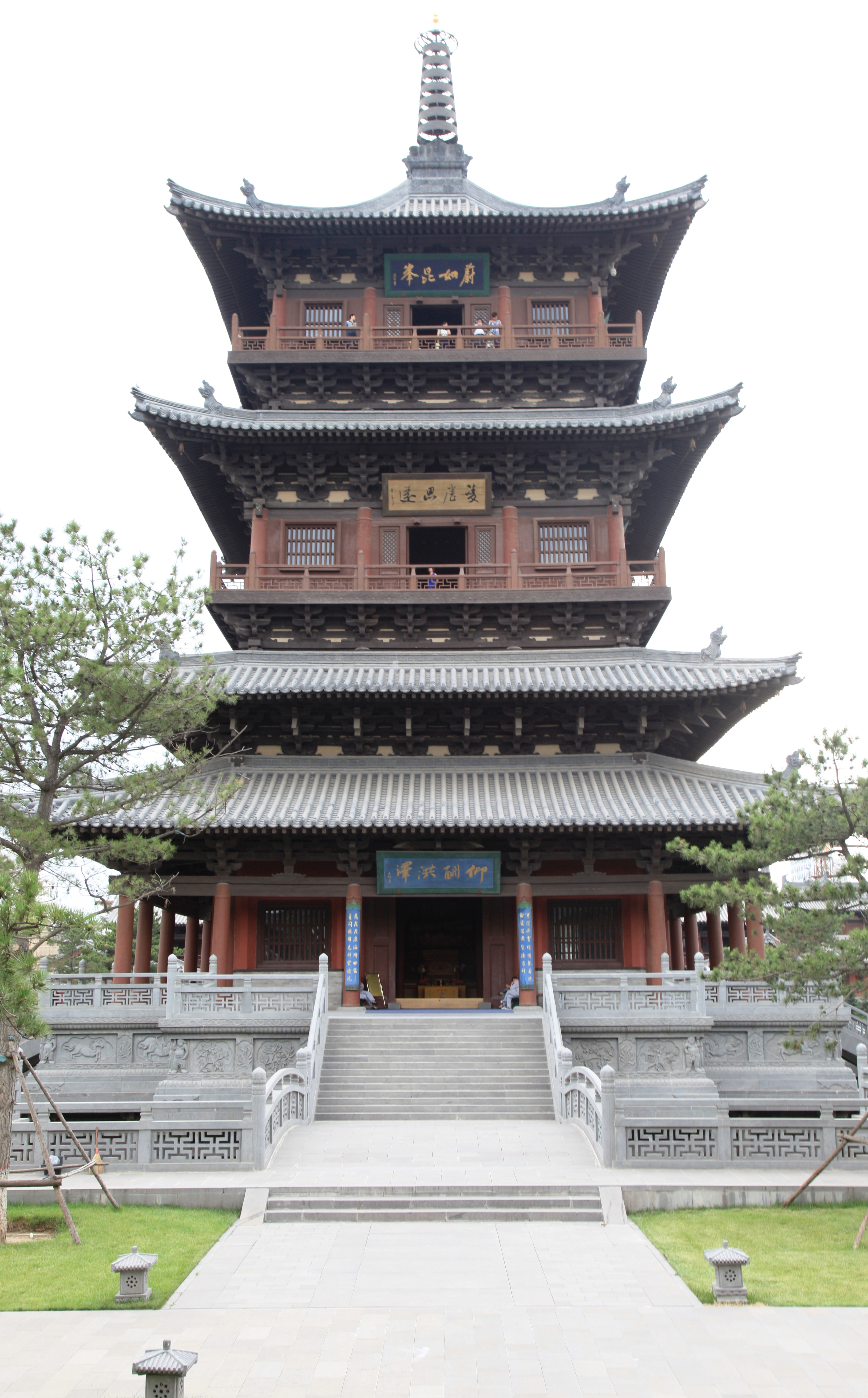 Pagoda at the Huayan Monastery. Innercity Datong, Shanxi.